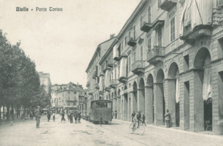 Biella, Porta Torino